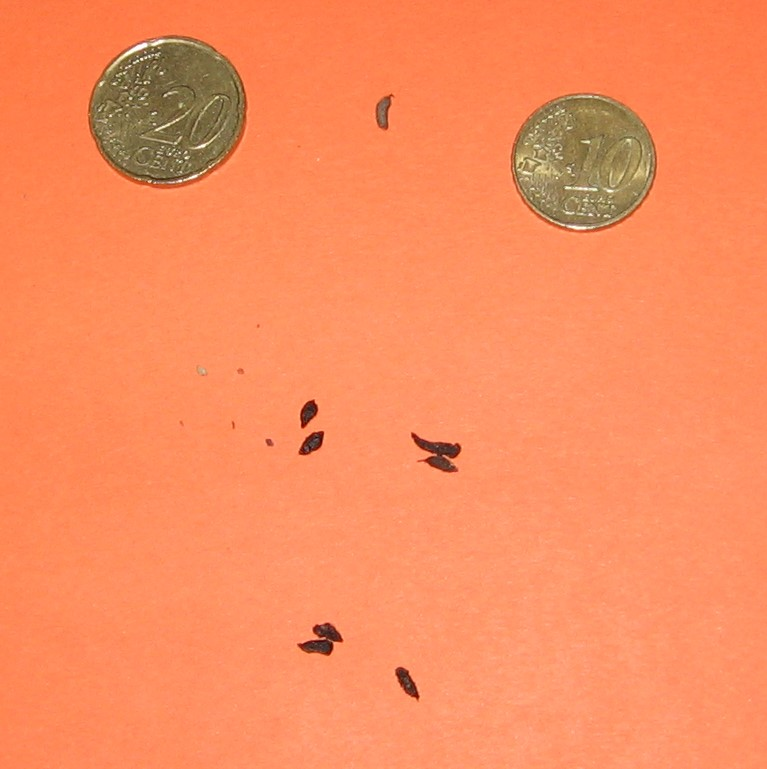 Housemouse (Mus musculus) droppings with 10 and 20 euro cent coins, Utrecht, The Netherlands, December 14, 2019.